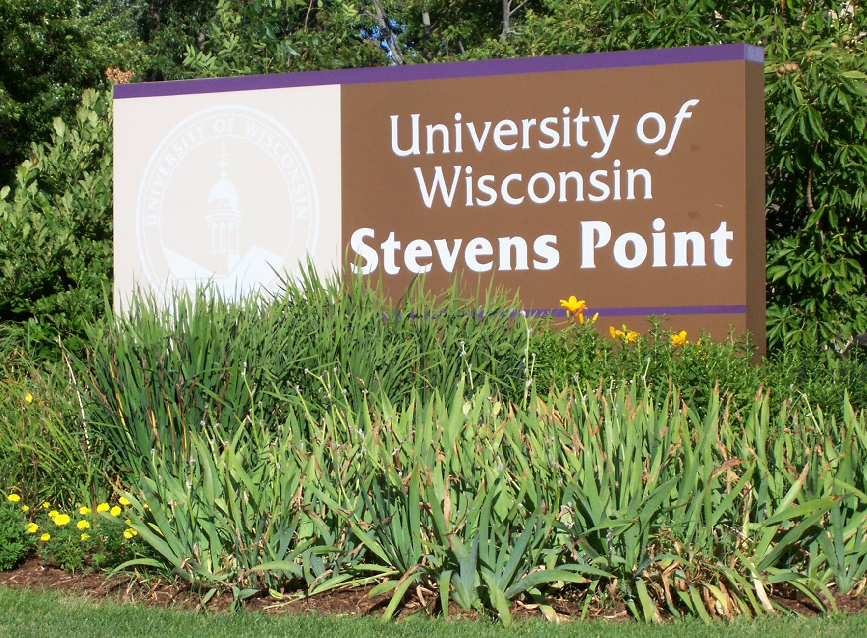 A welcome sign at the University of Wisconsin-Stevens Point in Stevens Point, Wisconsin, USA.